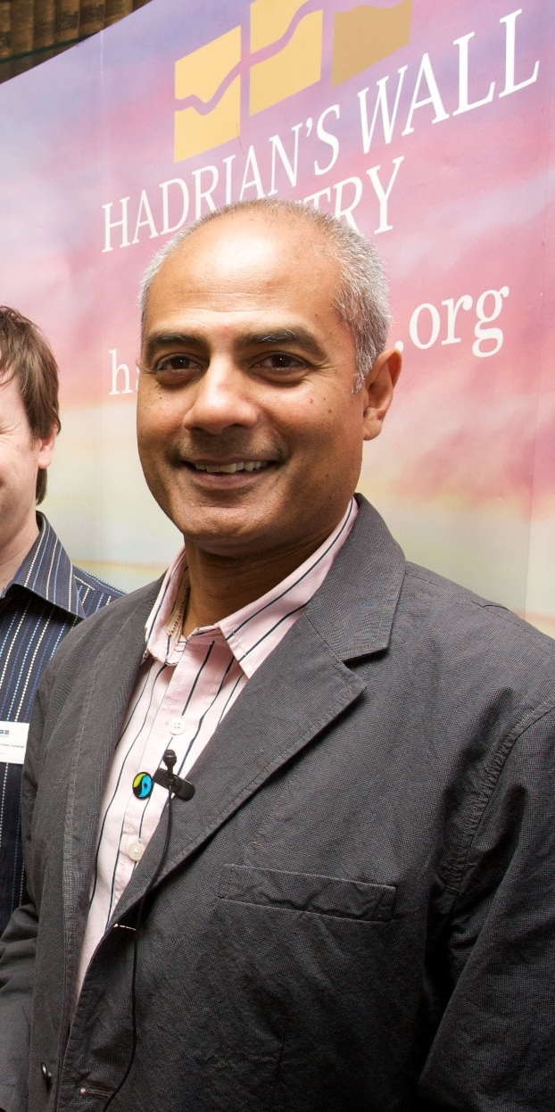 HADRIAN_FAIRTRADE_LAUNCH_LR Stella Carmichael, Newcastle City Council; Lauren Harrison; Julie Sloan; Paul Sharpe, Shared Interest Society; and George Alagiah